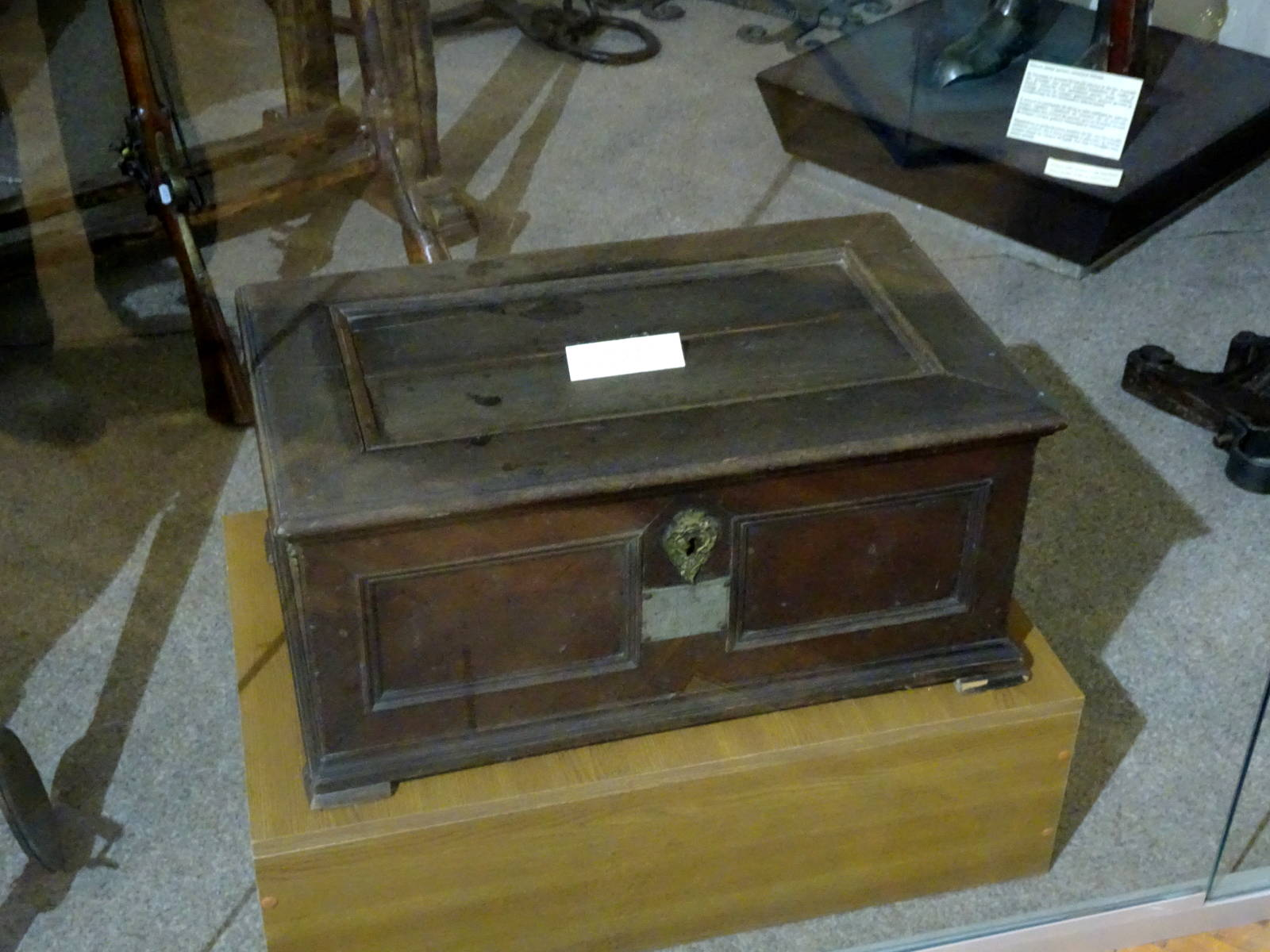 Expositions in Brașov County Museum of History, Brașov, Romania